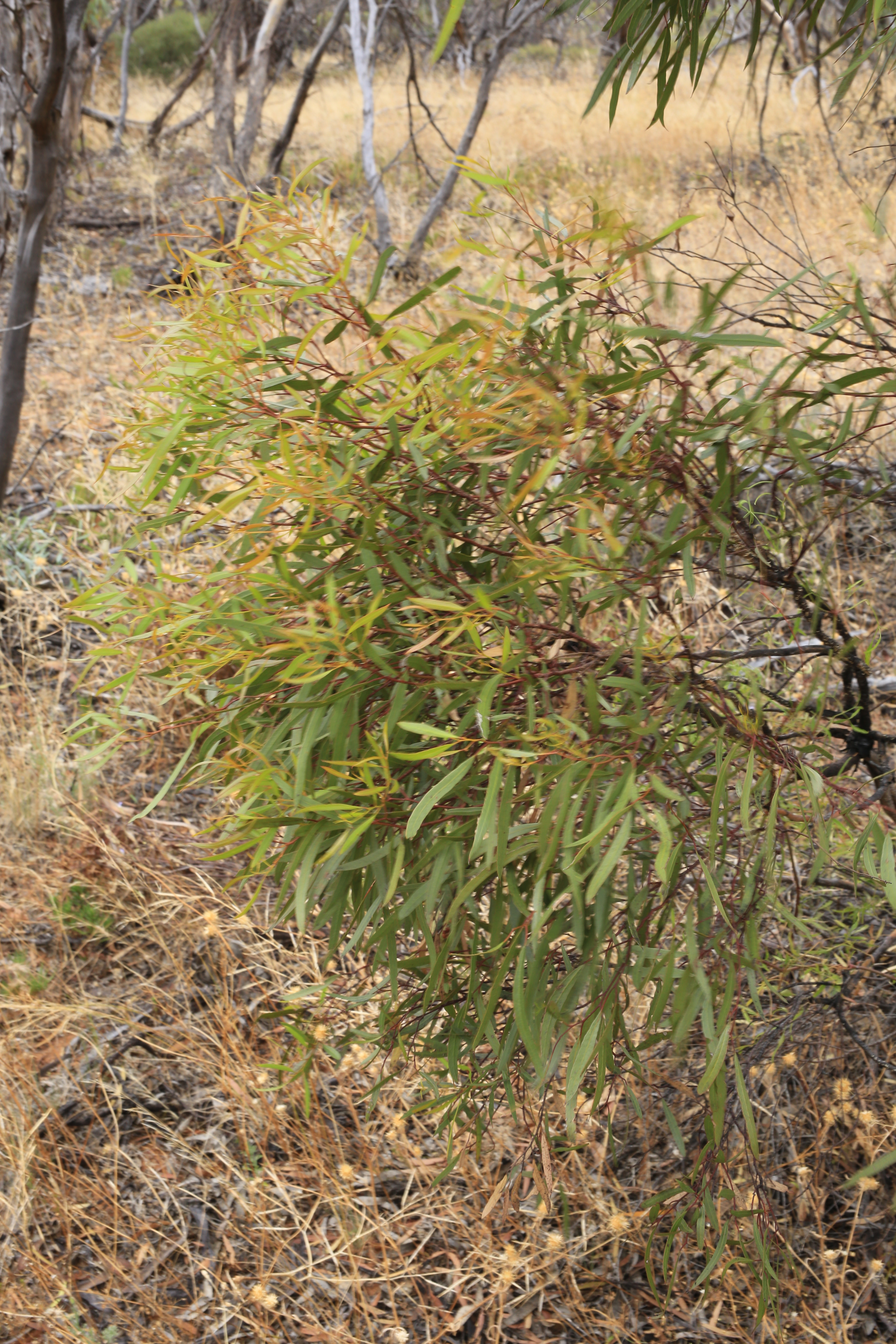 Eucalyptus leptophylla F.Muell. ex Miq., Wyperfeld National Park, VIC, 23 January 2017